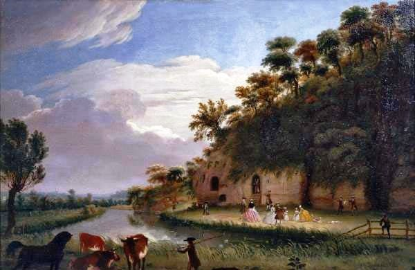 A painting of the local aristocrats having a picnic beside the Trent and the cave carved by a hermit as his home